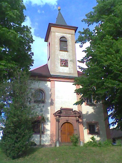 St. Agatha Church, Horben, Germany.